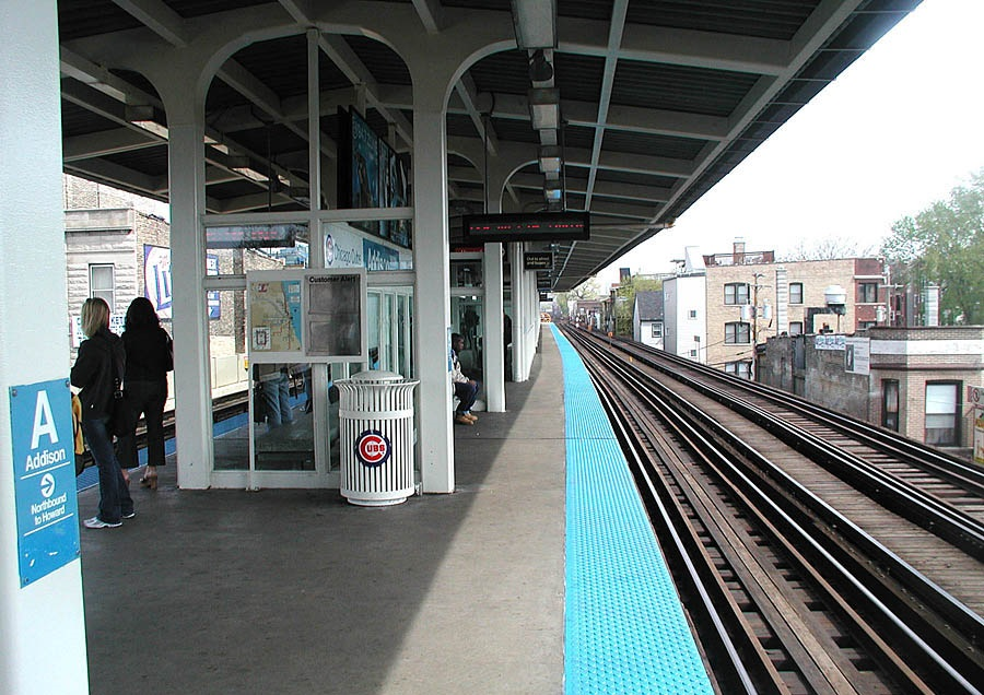 The island platform at Addison, looking north on May 8, 2003. The northbound tracks to the right are on the original right-of-way; The original southbound tracks, moved west in the reconstruction, were where the platform is now. Although the station is simply called "Addison", Cubs logos adorn everything from station name signs to garbage cans. Go to for more photos.